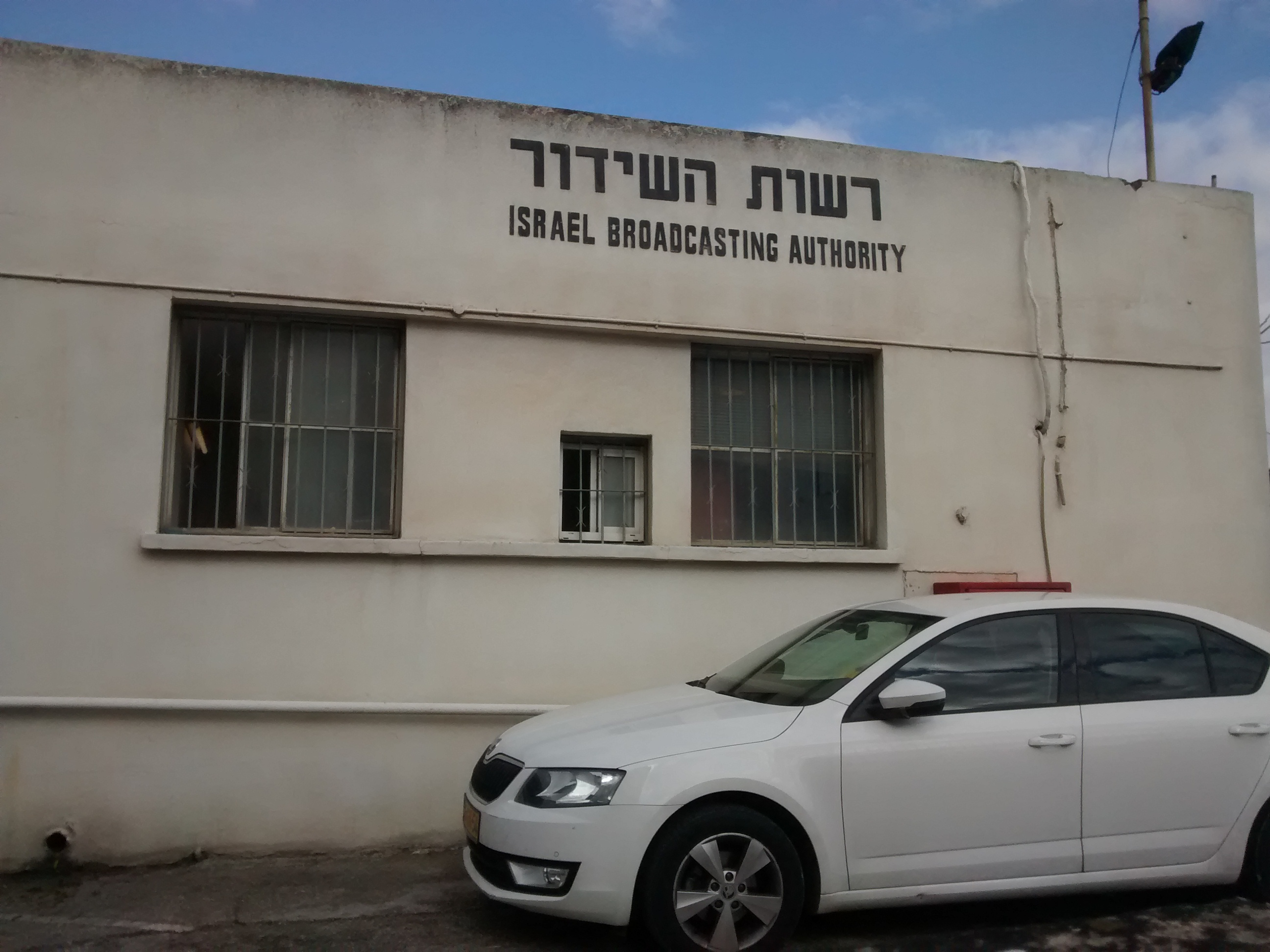 Israel Broadcasting Authority sign in its facilities in Romema, Jerusalem 2016